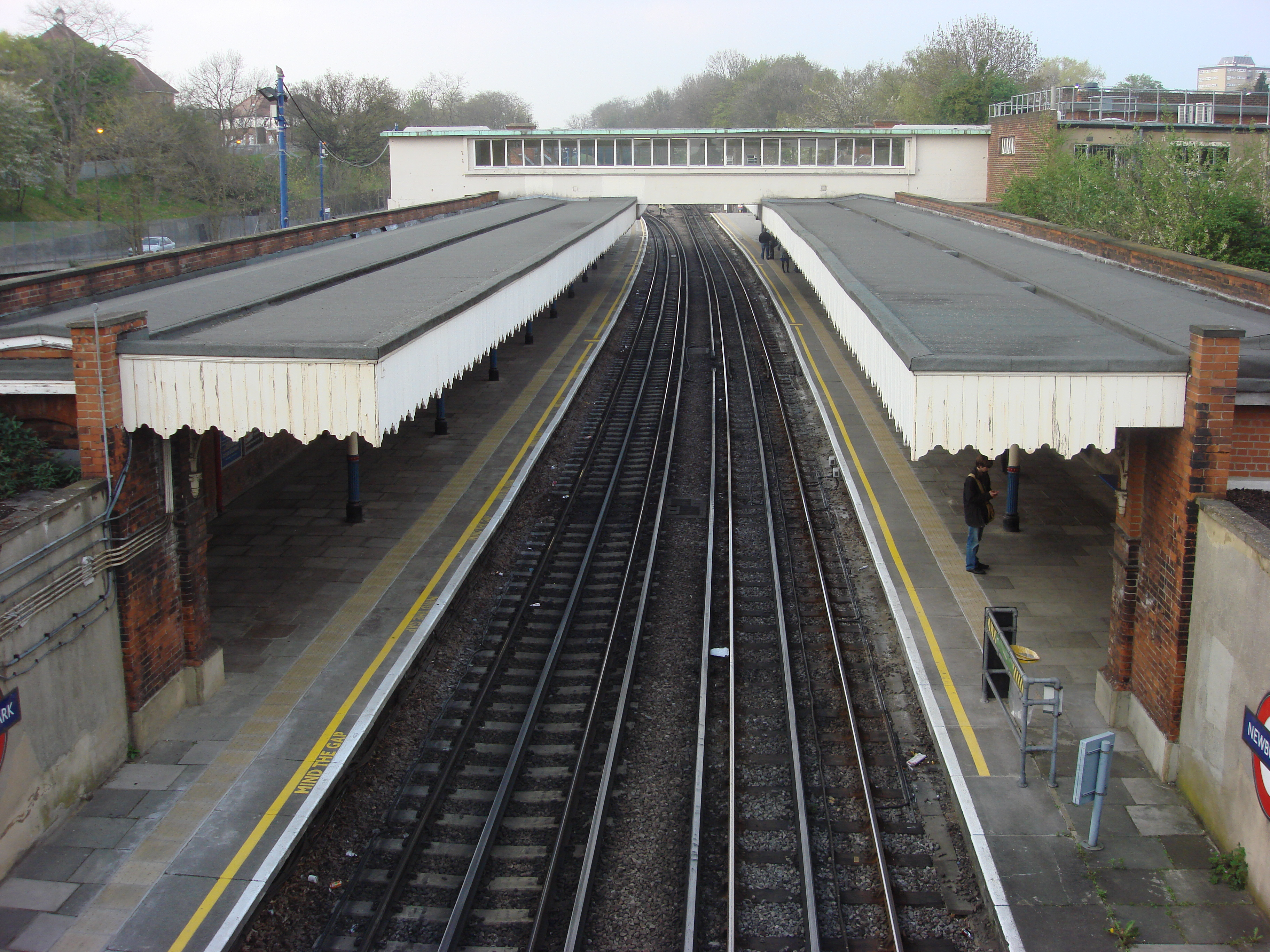 Newbury Park tube station